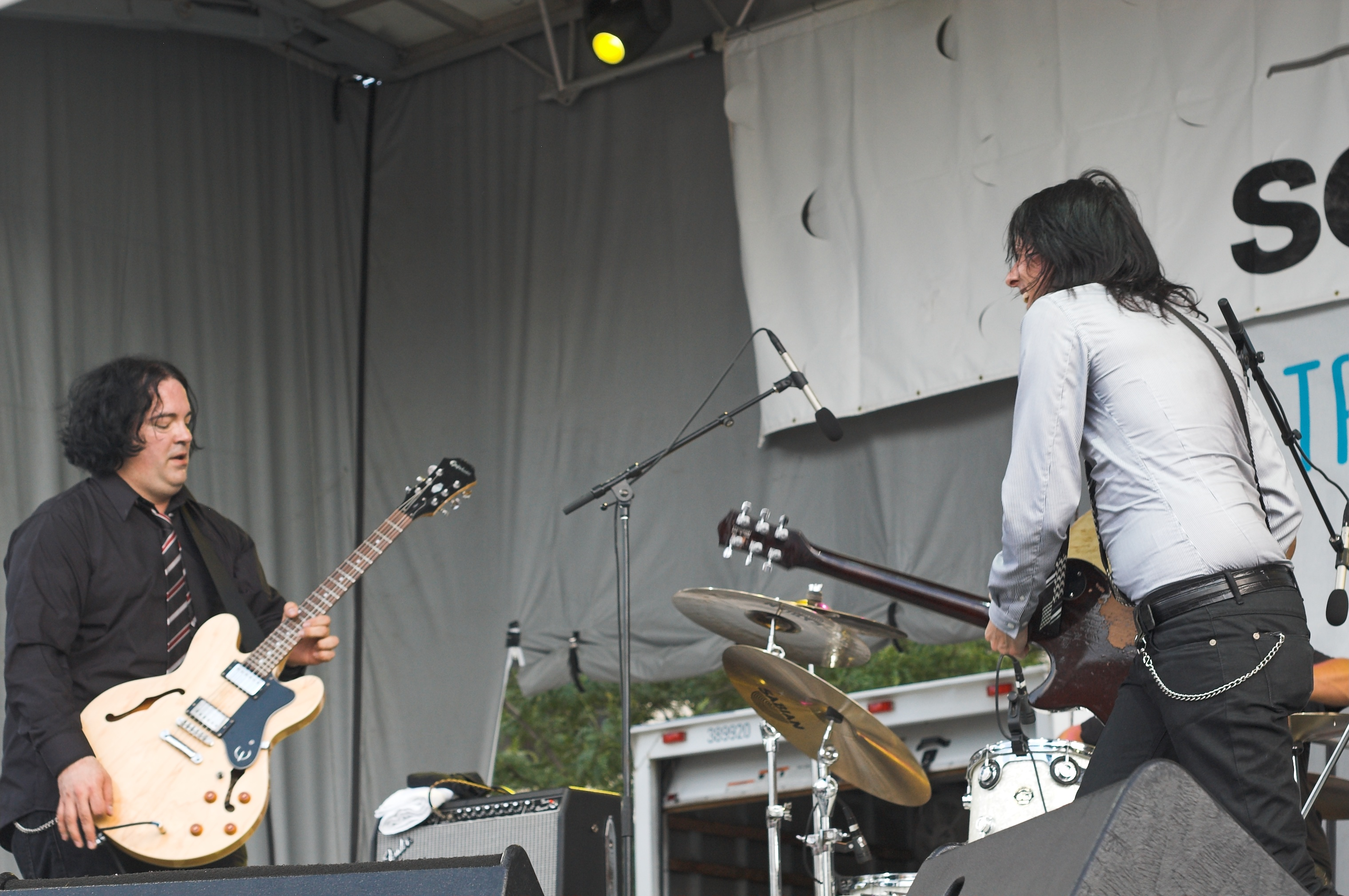 Power pop group The Posies perform at the Taste of Randolph Street festival held in Chicago, IL in January 2009, photographed by tay-lo.